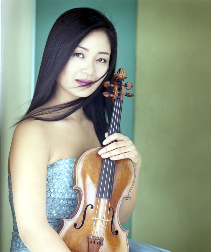 Chee-Yun holding her Francesco Rugeri violin built in 1669.